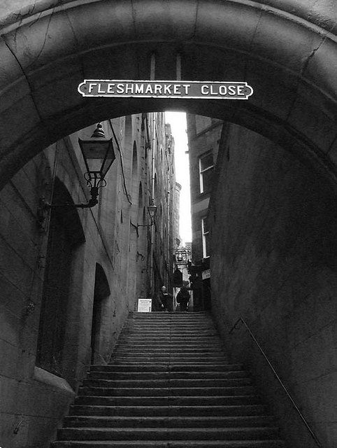 Fleshmarket Close Flashmarket Close. I'm going to say that again. Fleshmarket Close. I think if we were to say, "Well, I'm aff tae the fleshmarket again", many more would be vegetarian.